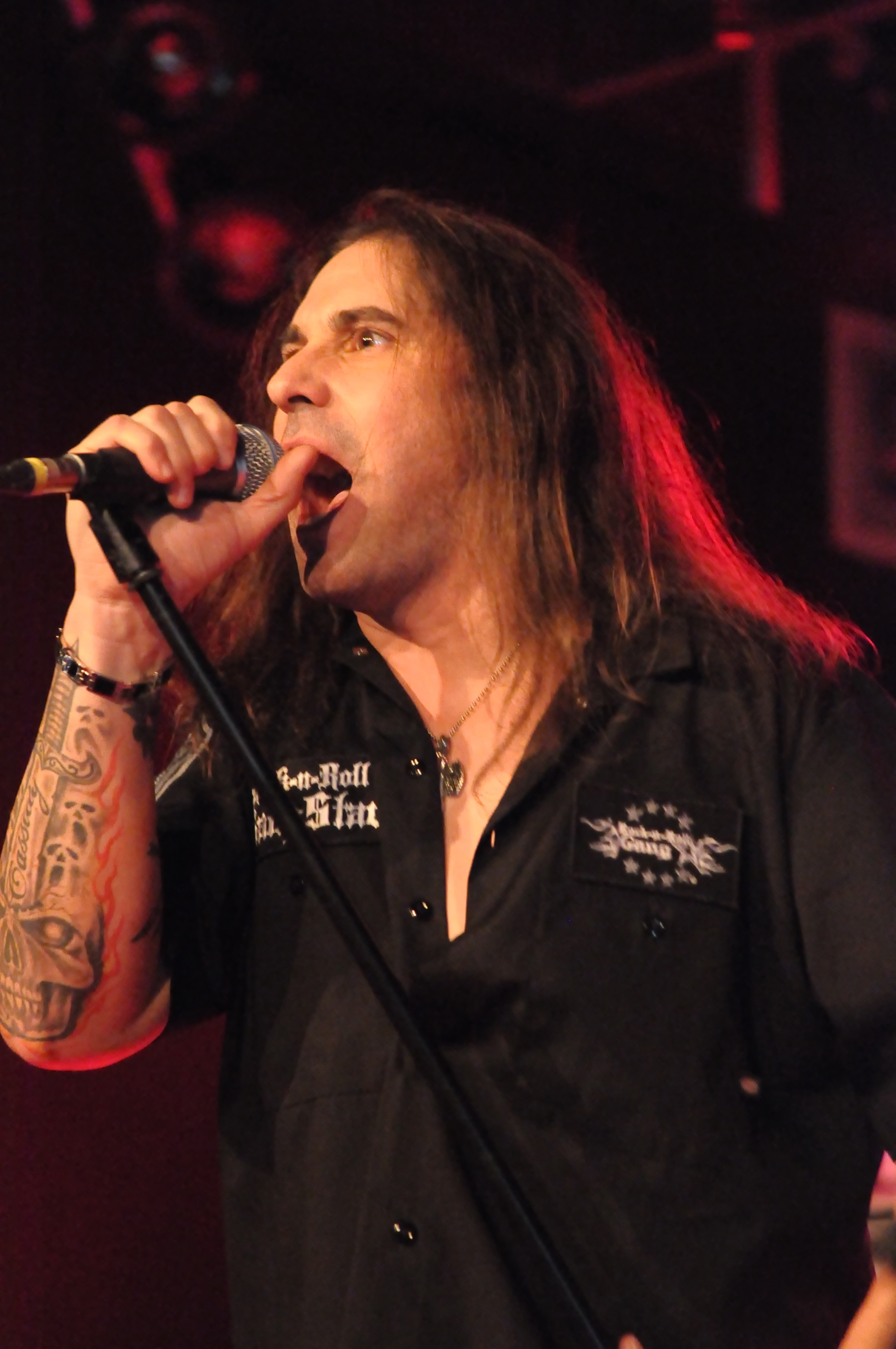 Circle II Circle, Börsencrash Festival 2014, Wuppertal